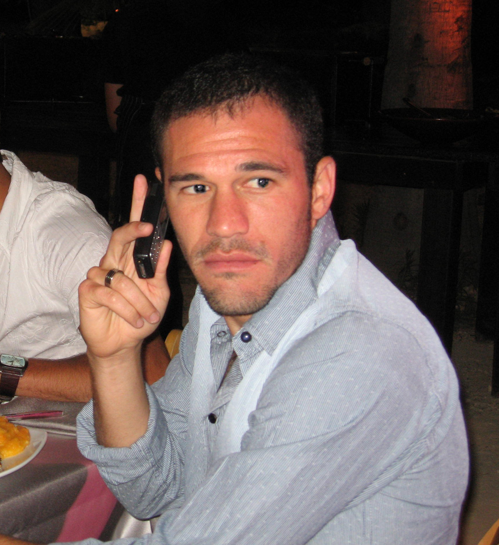 Michael Zandberg, an Israeli football player.